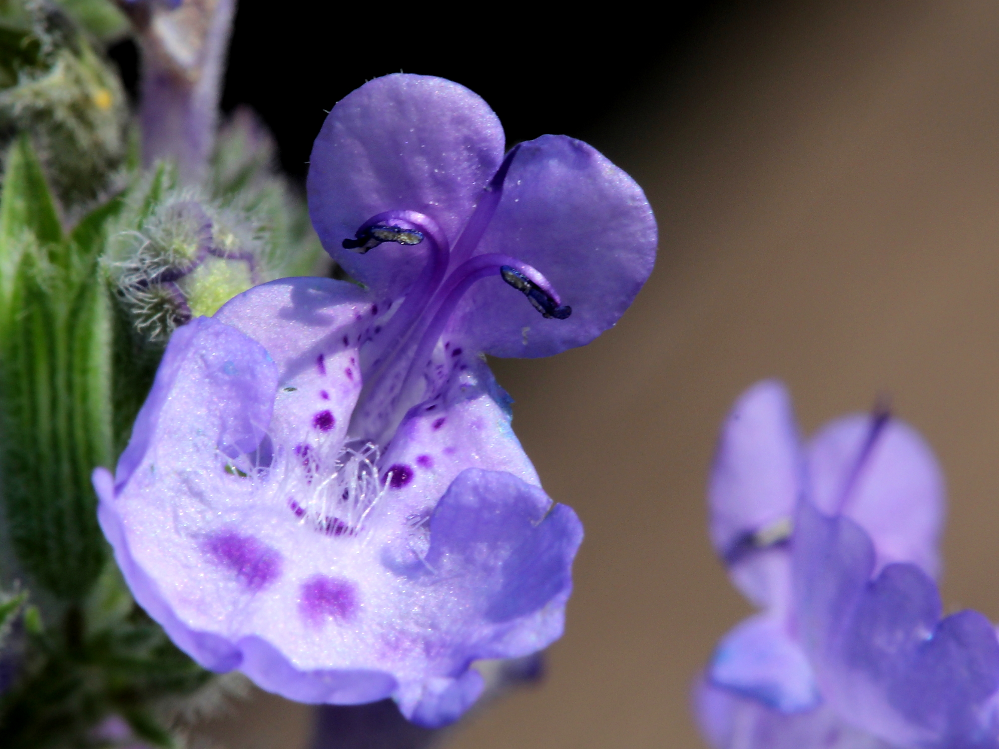 Catmint blossom, picture taken in private garden